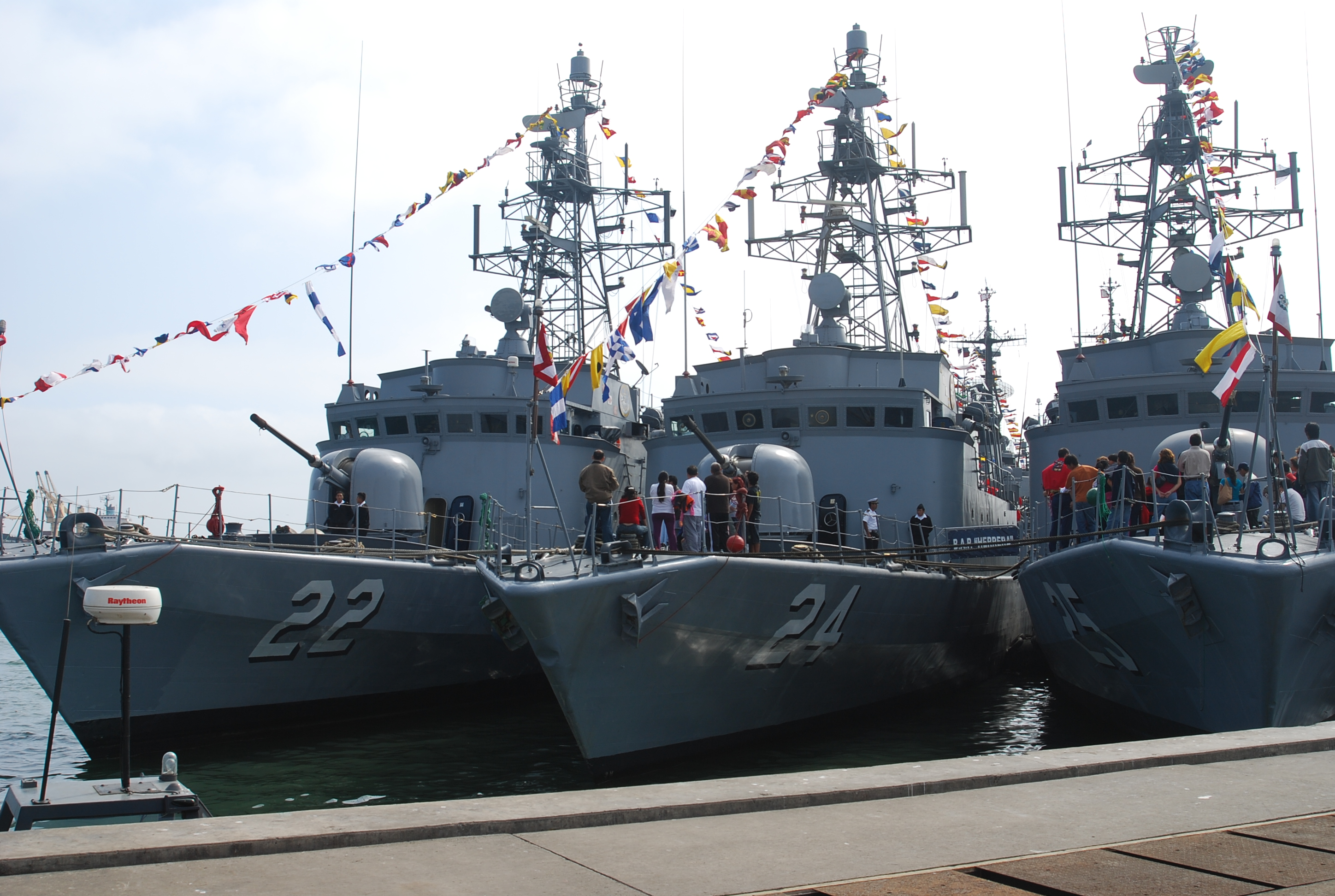 Velarde class corvettes Taken in Callao, Provincia Constitucional del Callao, Peru.